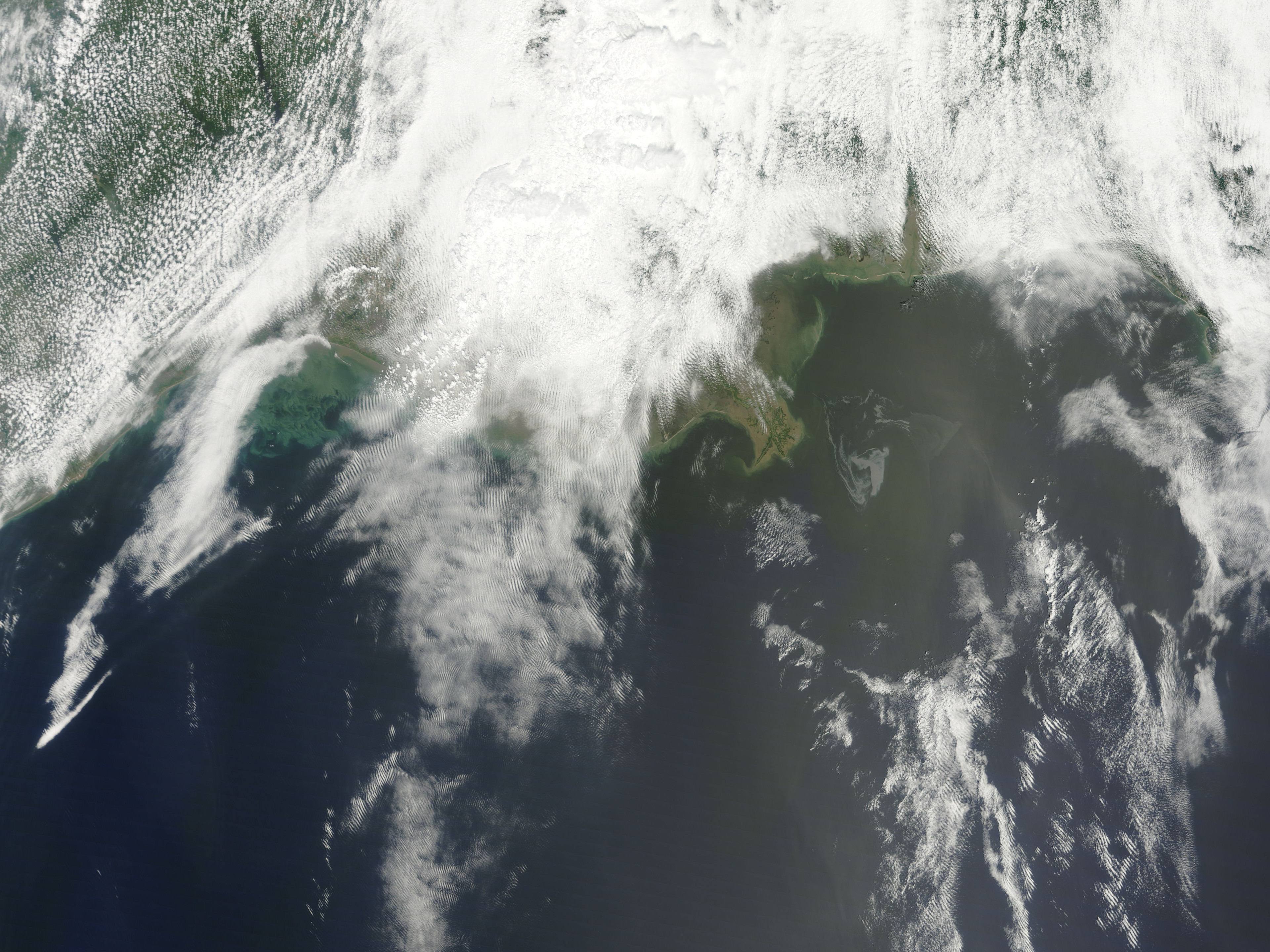 The Deepwater Horizon oil spill (appearing as a dull gray color) is southeast of the Mississippi Delta in this May 1, 2010, image from NASA's MODIS instrument.